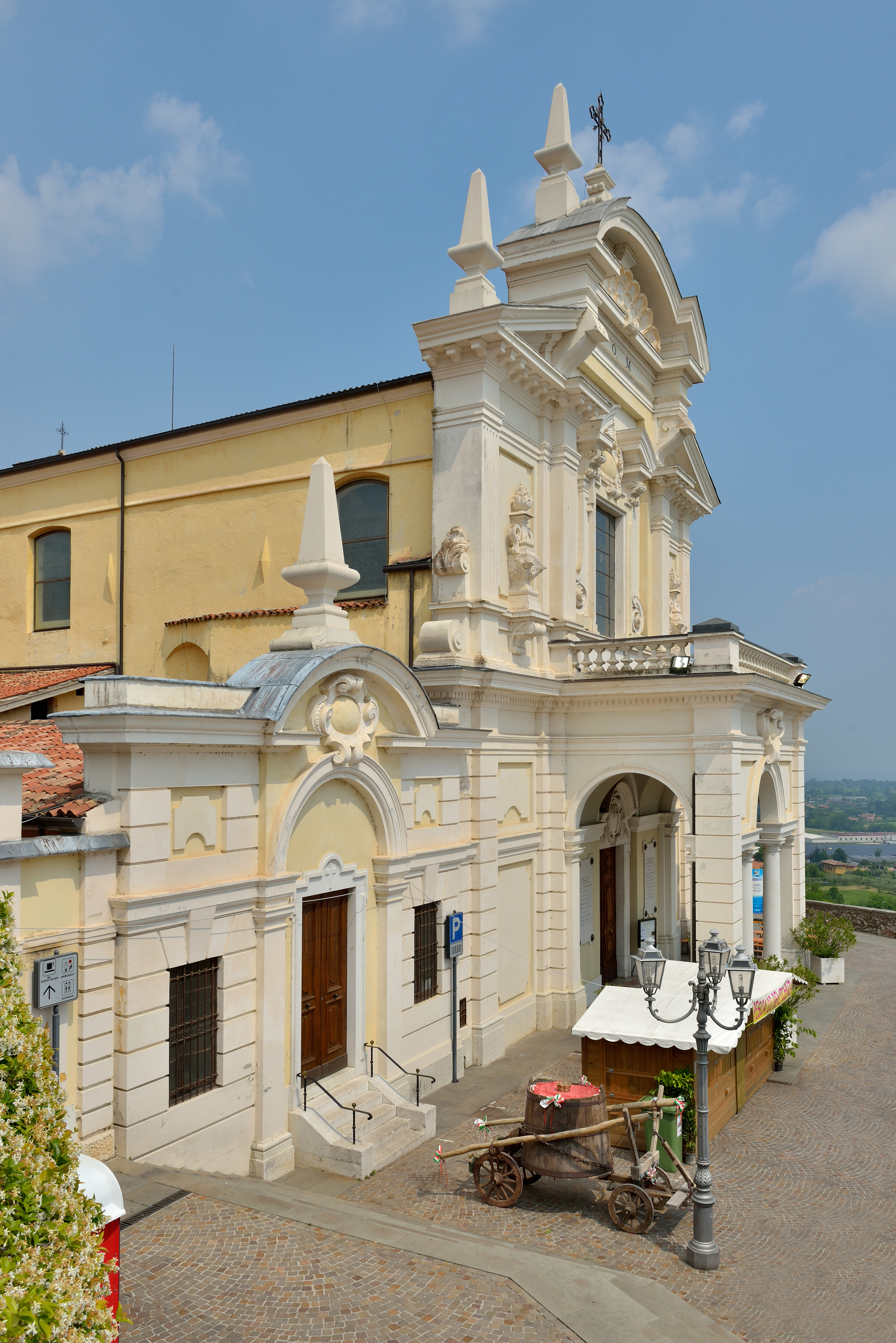 Parish church of Polpenazze in the province of Brescia Italy